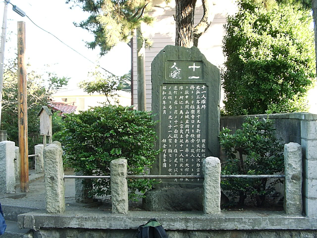 Monument for the memory of Muneuji Ohdachi and his men died in the Battle for Kamakura at Inamuragasaki.